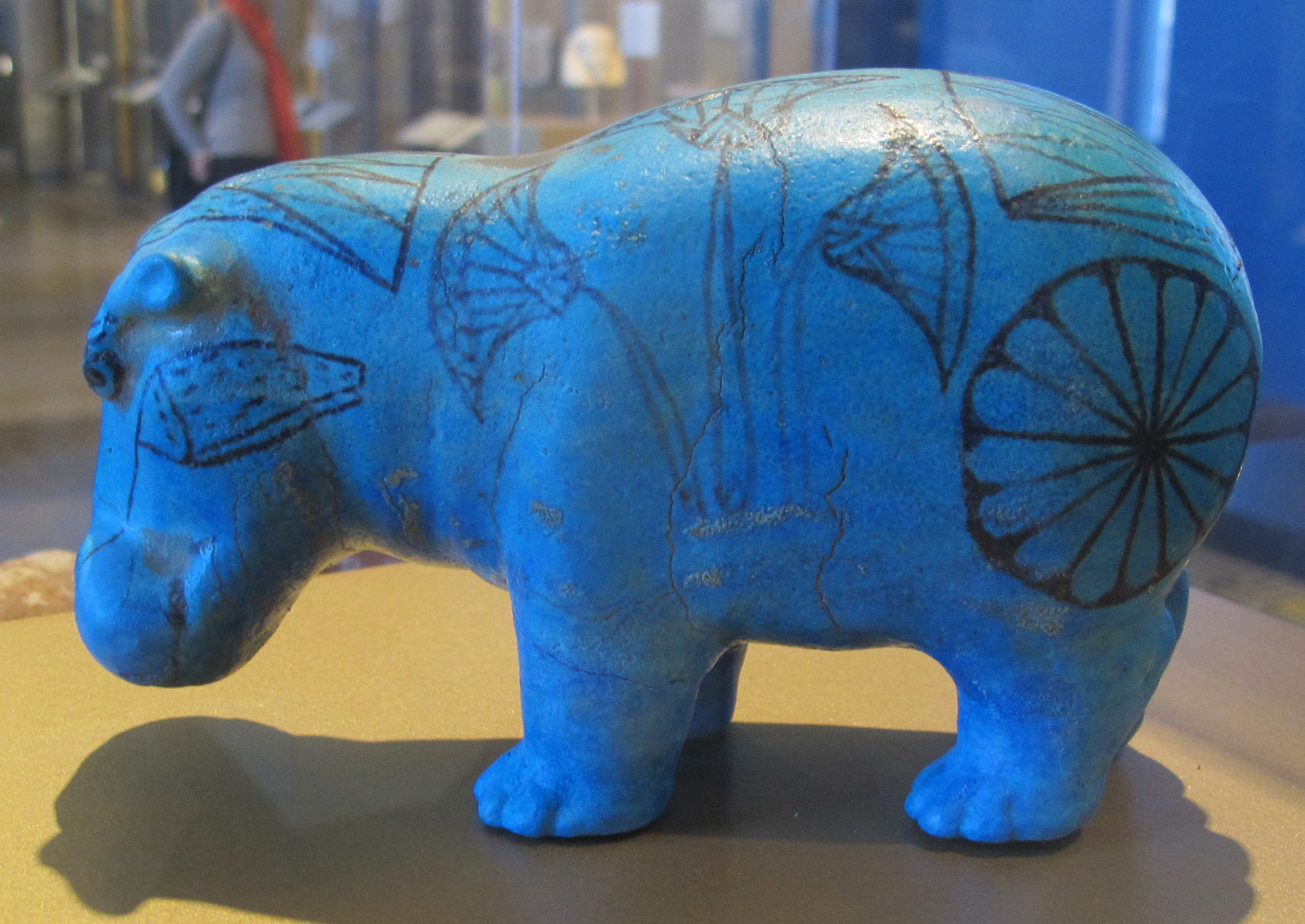 Egyptian antiquities in the Brooklyn Museum